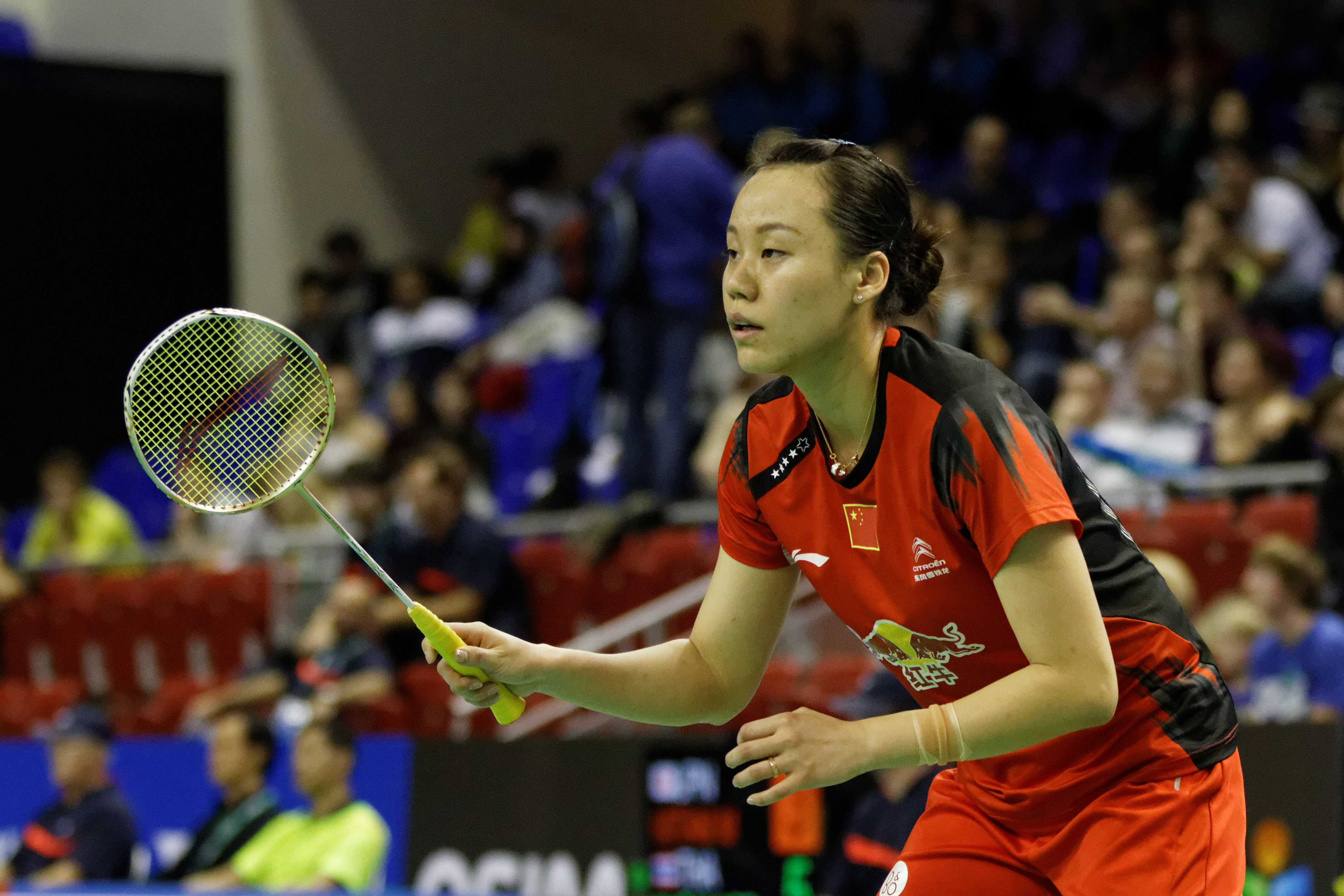 2013 French open. Women's doubles quarterfinal. Tian Qing and Zhao Yunlei vs Misaki Matsutomo and Ayaka Takahashi.